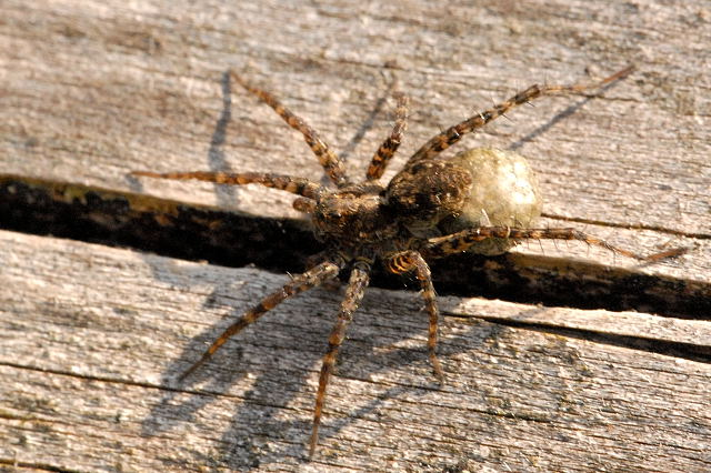 Pardosa lugubris from Commanster, Belgian High Ardennes .